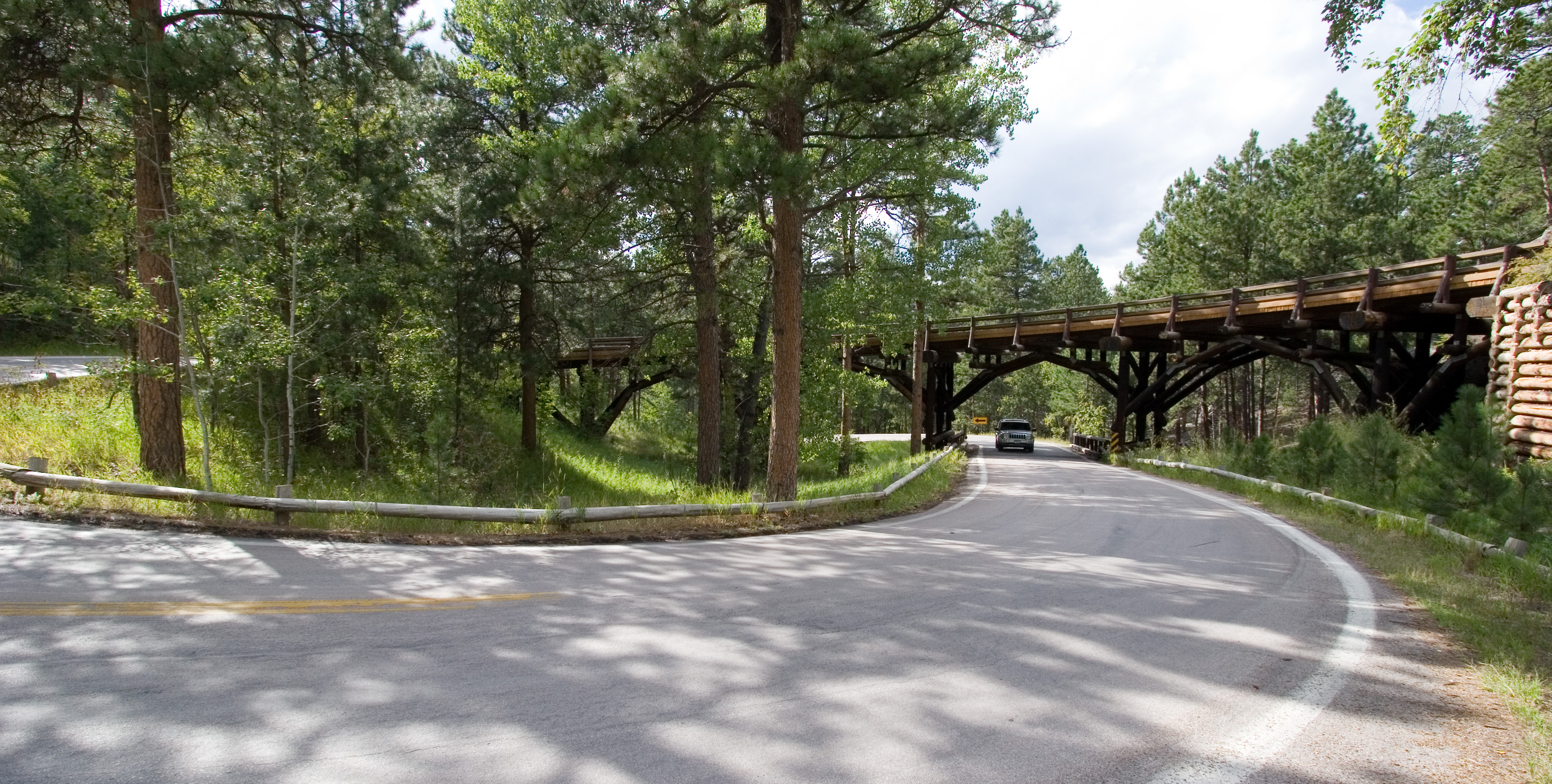 Pigtail Bridge on US 16A, Black Hills, South Dakota